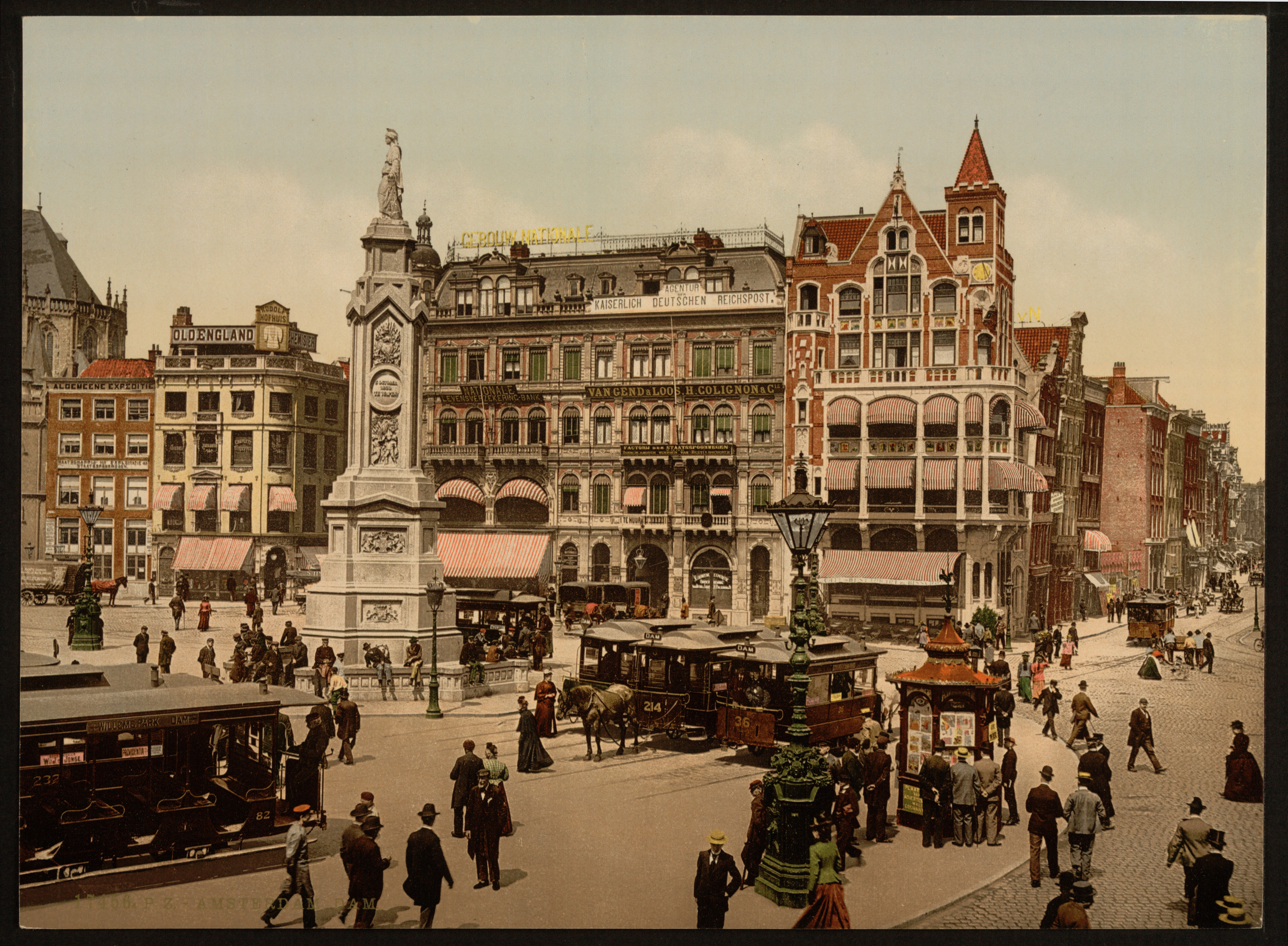 The cathedral, Amsterdam, Holland. This image belongs to the Category:Photochrom pictures in their original state. This is an unprocessed image. Its purpose is to show the properties of a photochrom print. Please do not modify this image. Modifications will be reverted.